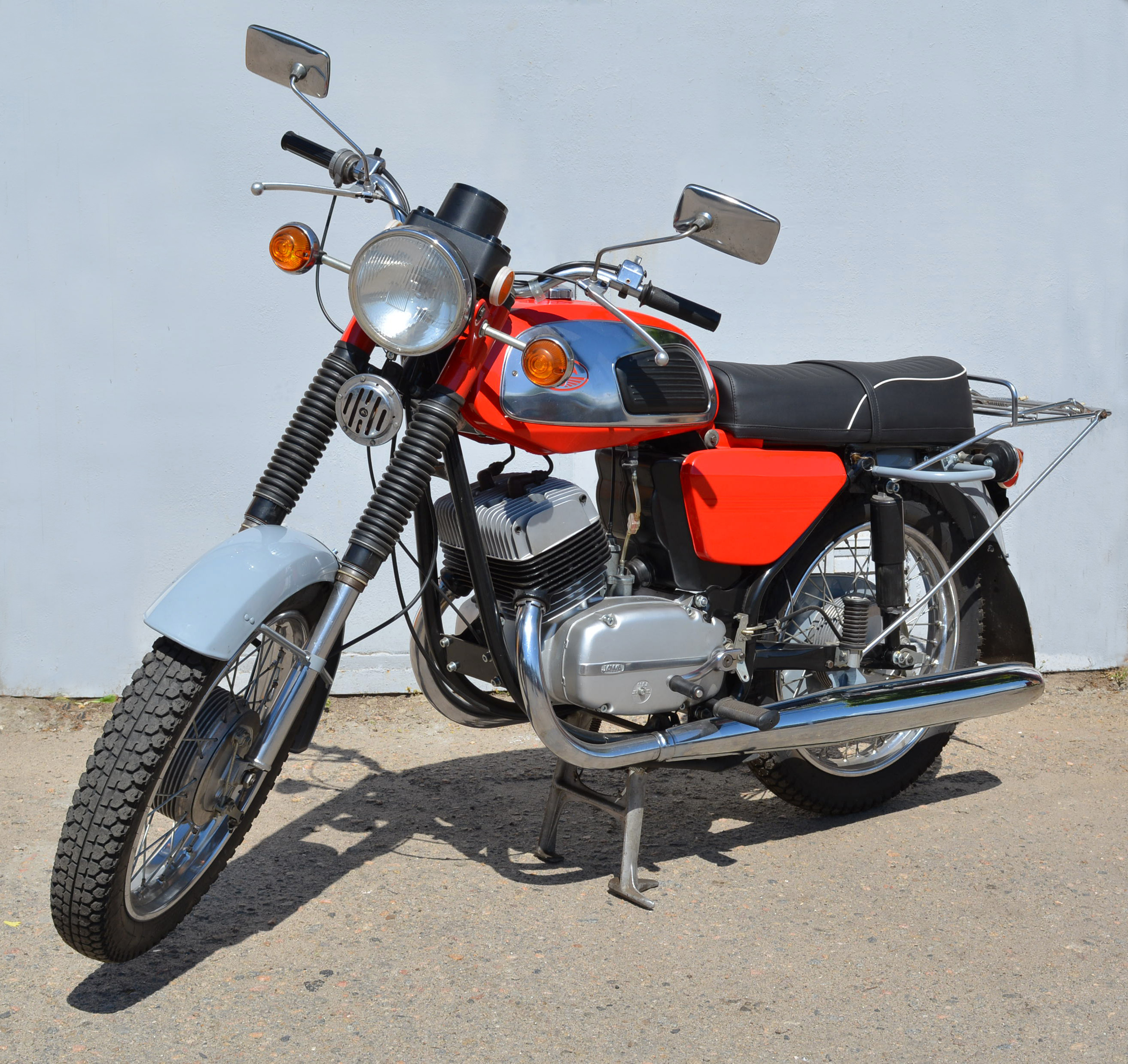 Jawa 350 typ 634-8, 1978